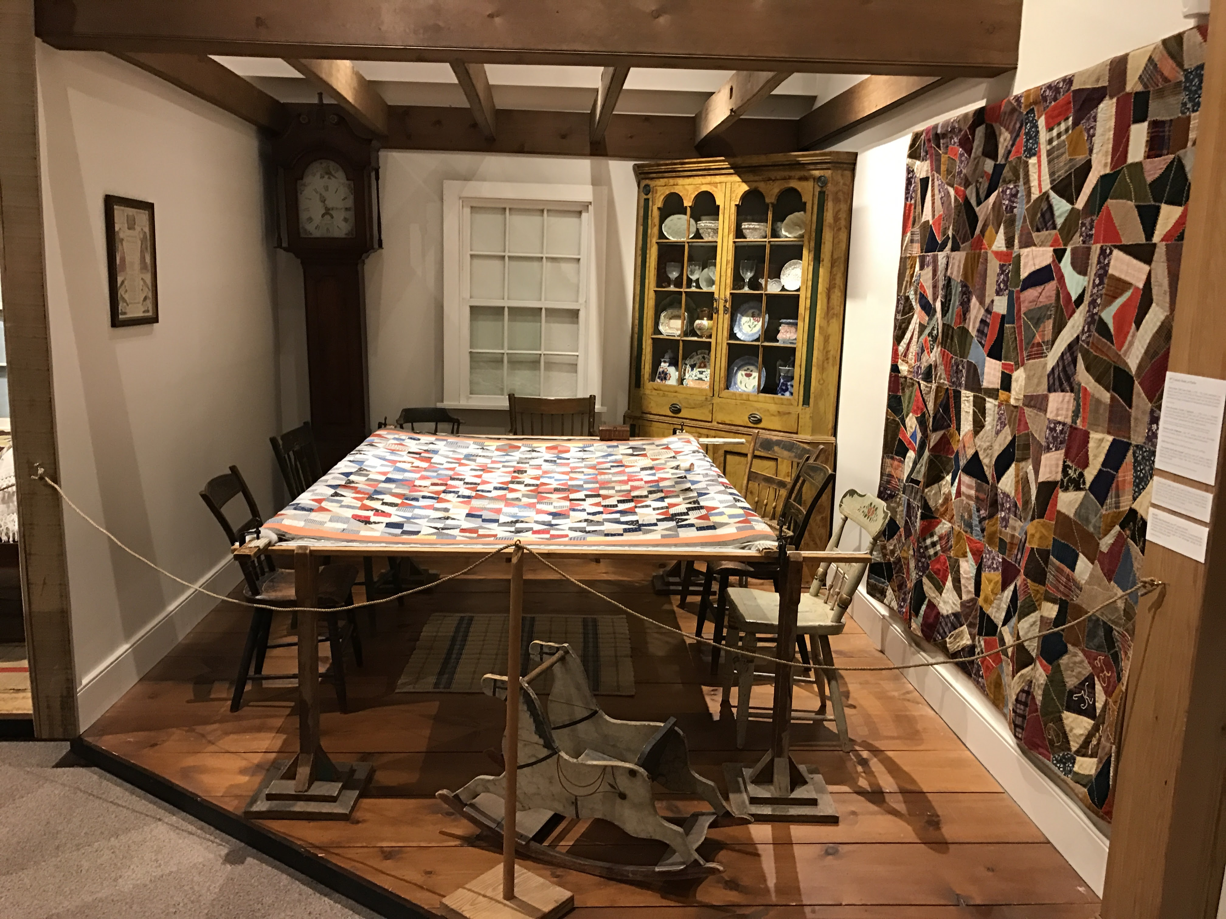 Model of interior of a house at Mennonite Heritage Center, Harleysville, Pennsylvania